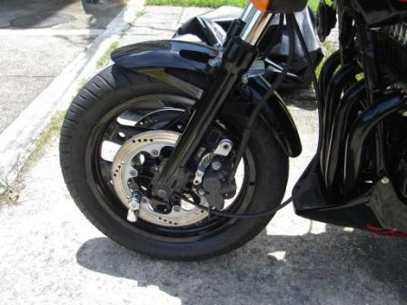 Front wheel from CBX 750F '86